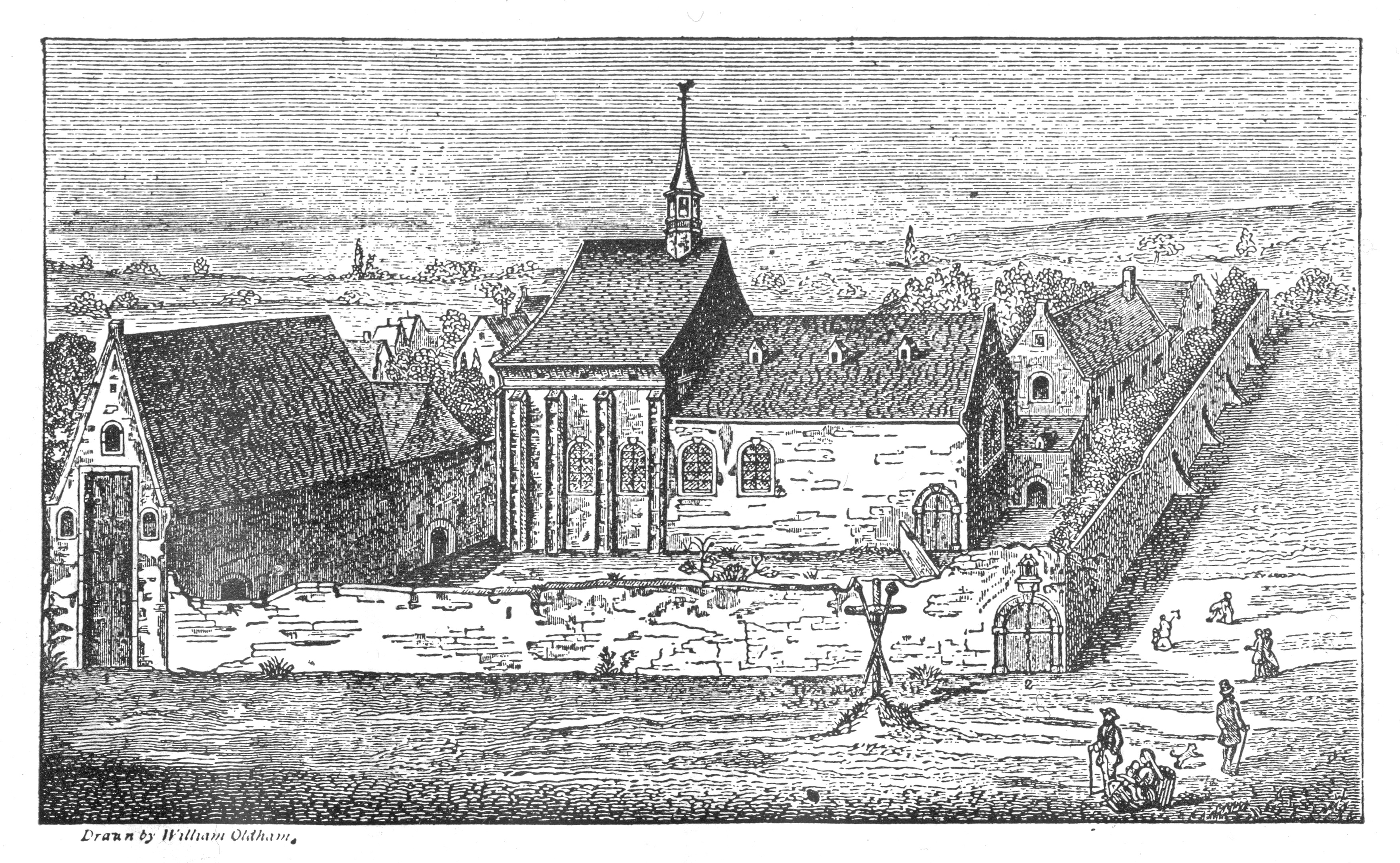 View of St. Anthony's College, Leuven, in the early 18th century. Caption in the cited source: St. Anthony's College, Louvain (As it was in the early part of the 18th century).